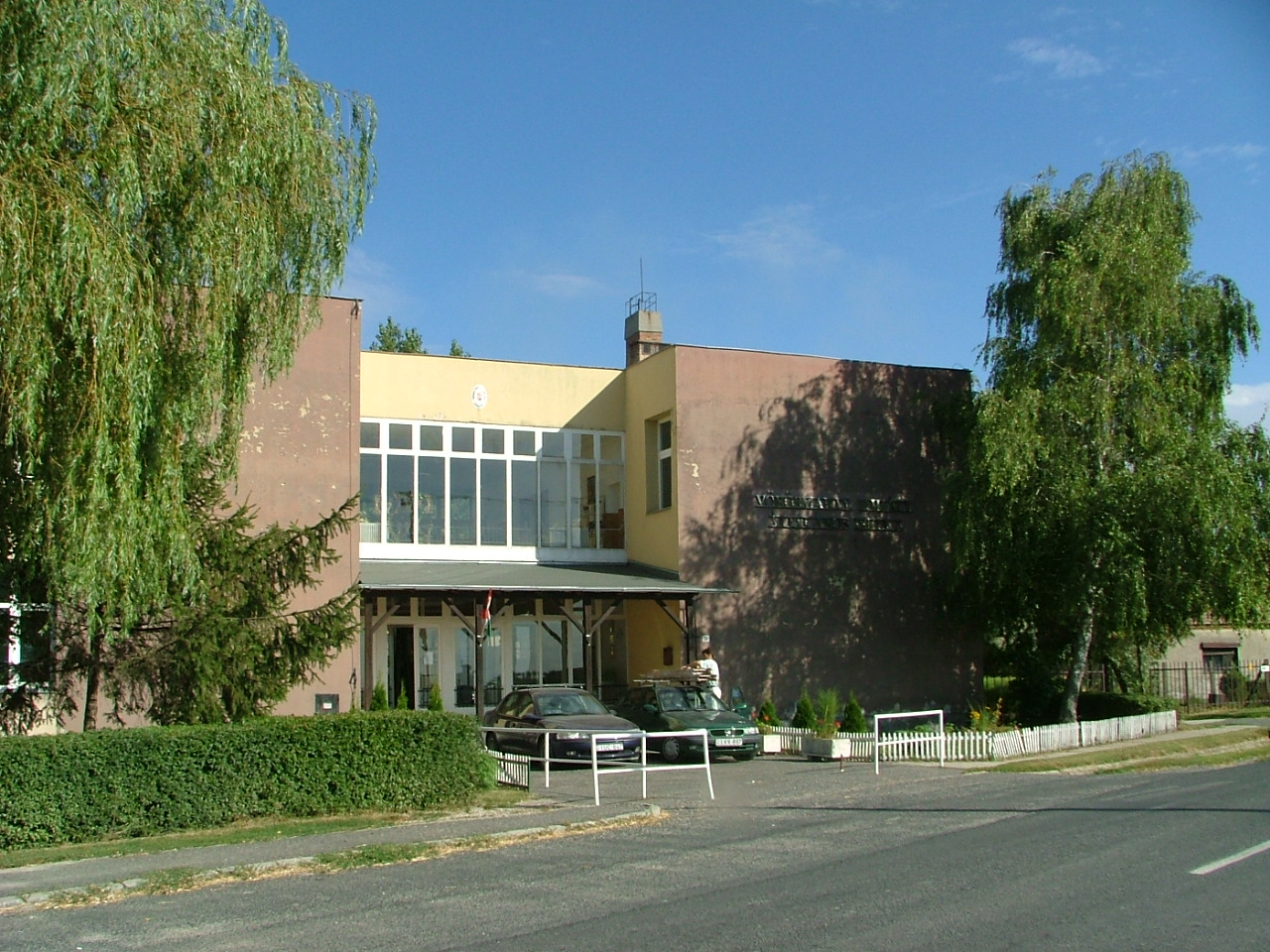 Kisbajcs, school